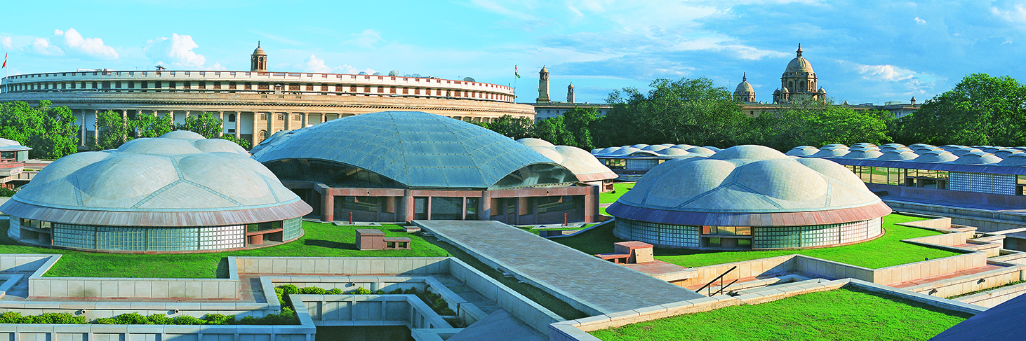 View of Parliament Library with Indian Parliament House in background